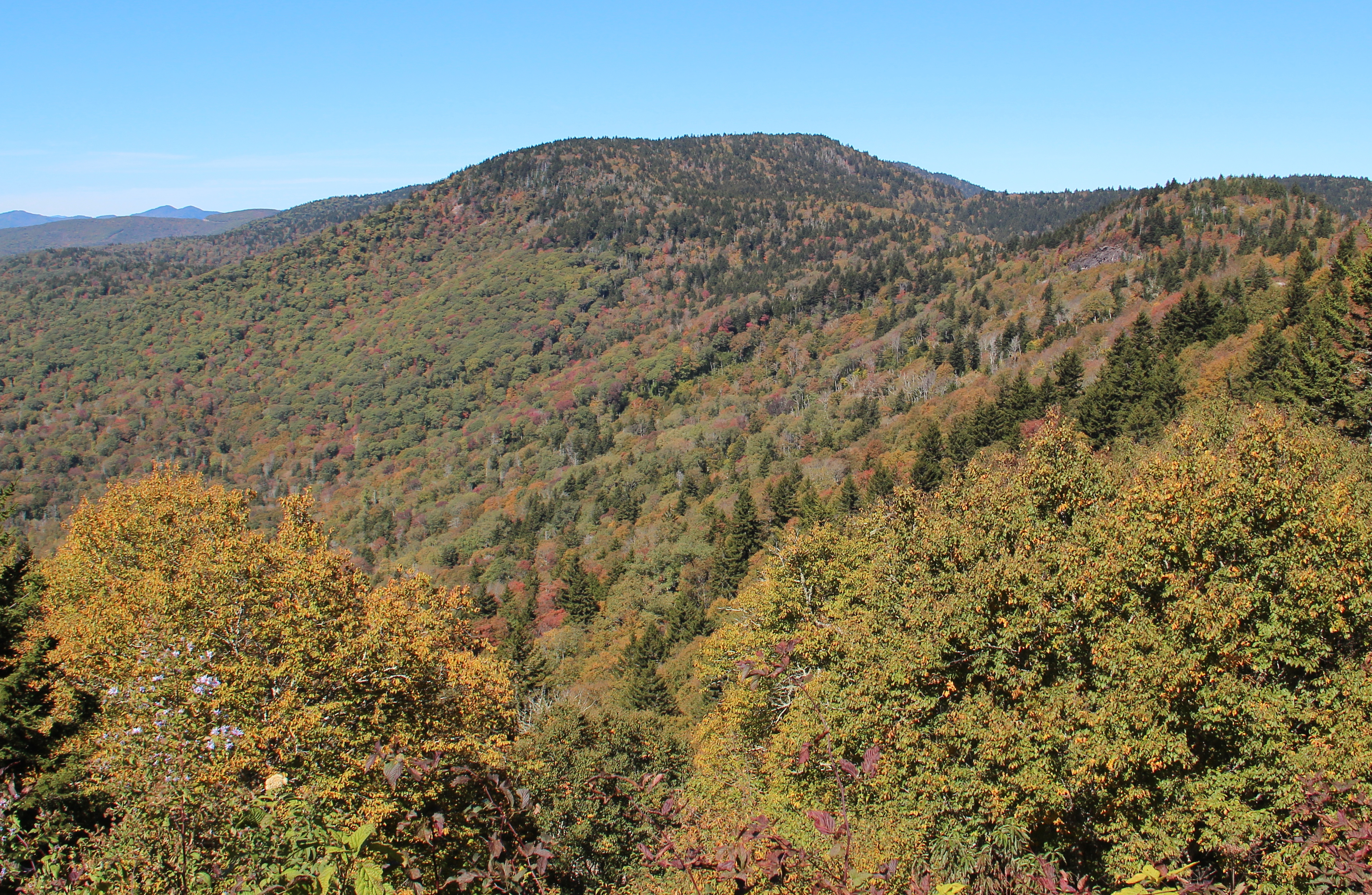 Viewed from the Caney Fork Overlook